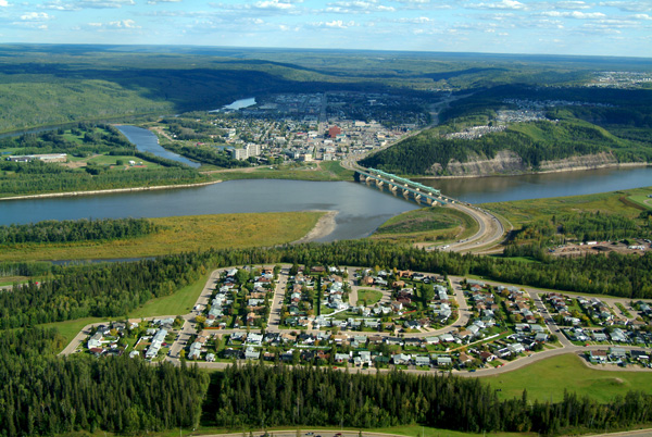 Aerial view of Fort McMurray. (From top to bottom: downtown, Grant MacEwan bridge over the Athabasca River, Thickwood)